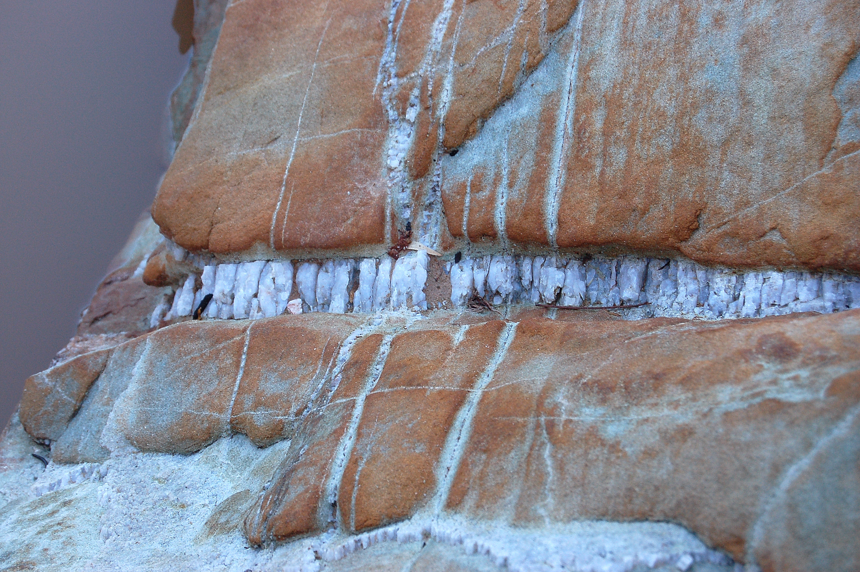 Quartz rock revealed after a major flood washed 15 feet of the top soil away in 2011, that had been covered up for time immemorial. Picture taken at Lake Eppalock, 30 Kilometers from Bendigo Victoria Australia on the 26 of Jan 2011